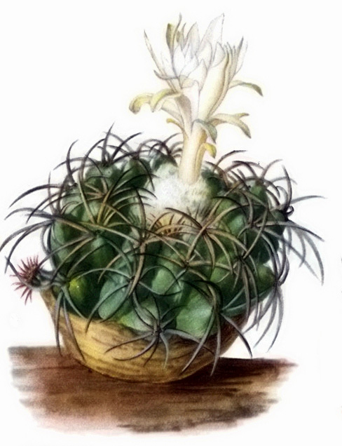 Discocactus bahiensis - Tafel XXXIV, Nr. 4 aus The Cactaceae. Band 3